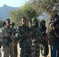 A group of Nigerien rebel fighters in northern Niger, from the Niger Movement for Justice. Photo by Phuong Tran, Voice of America reporter in Dakar 08 February 2008